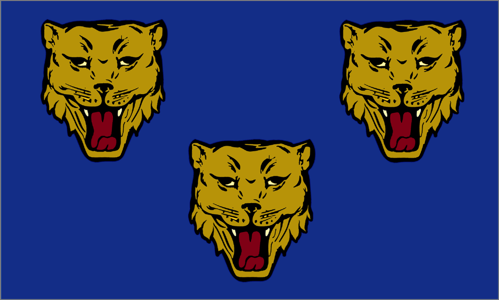 The flag of the town of Shrewsbury (Shropshire, England). The flag is a banner of arms (a flag based on the town's coat of arms).